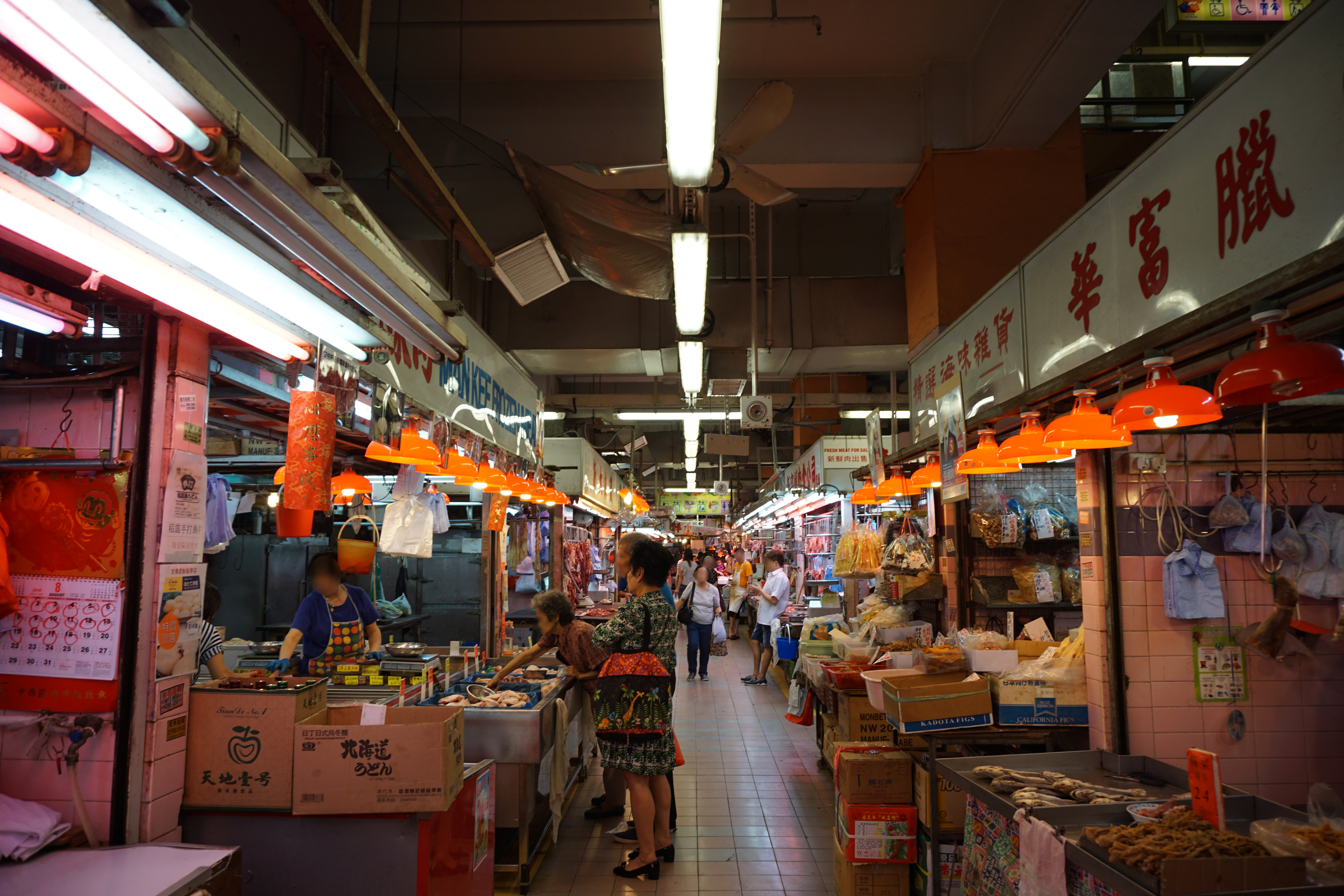 Smithfield Market in Kennedy Town, Hong Kong.